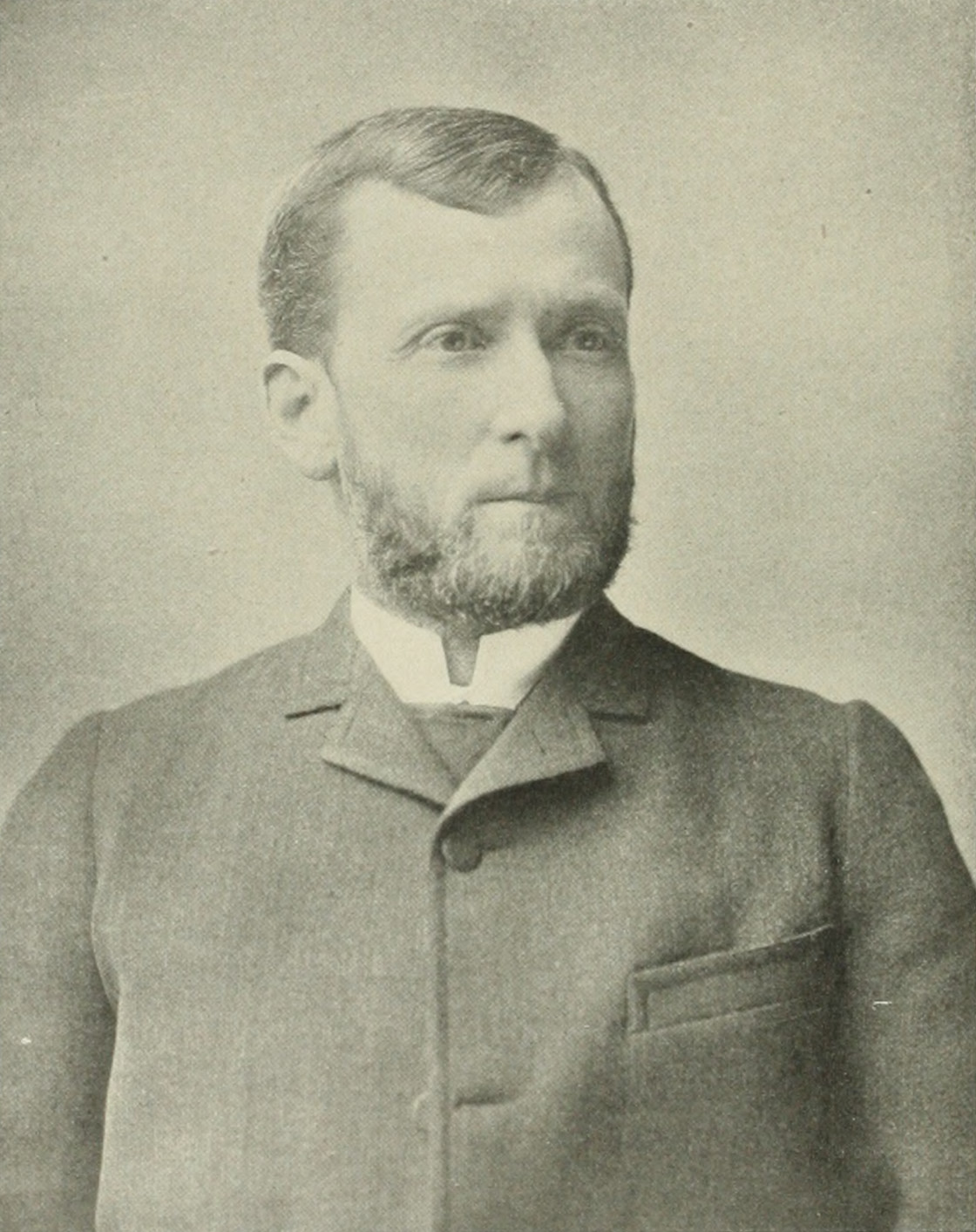 Joseph McKenna, Associate Justice of the United States Supreme Court